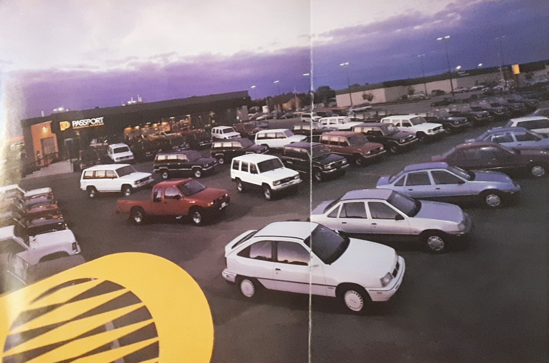 Image of a Passport dealership from the brochure of a 1990 Passport Optima